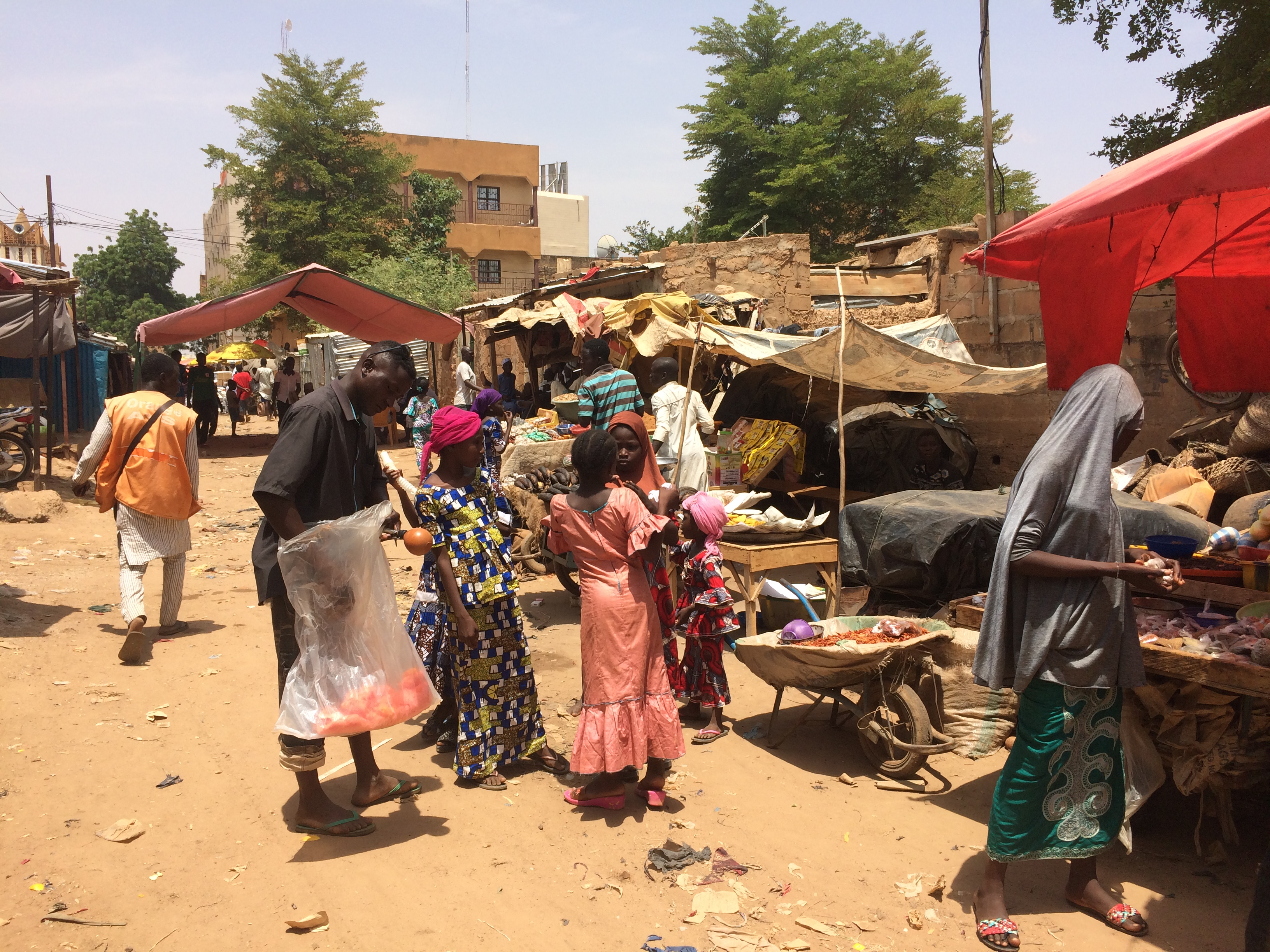 Street scene in Rue LI-26 (Liberté neighborhood, Niamey, Niger).